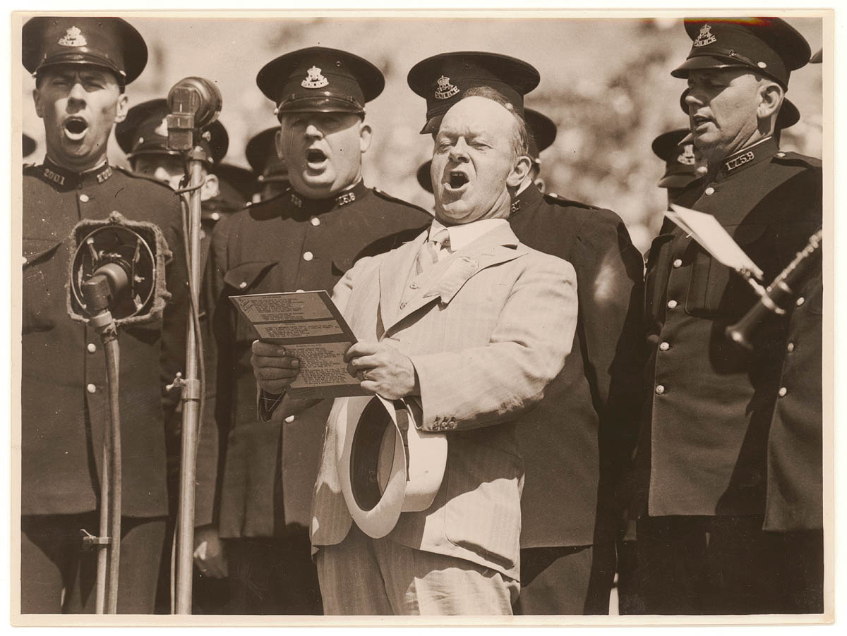 Format: Photograph Notes: Find more detailed information about this photographic collection: .au/item/itemDetailPaged.aspx?itemID=153446 Search for more great images in the State Library's collections: .au/search/SimpleSearch.aspx From the collection of the State Library of New South Wales